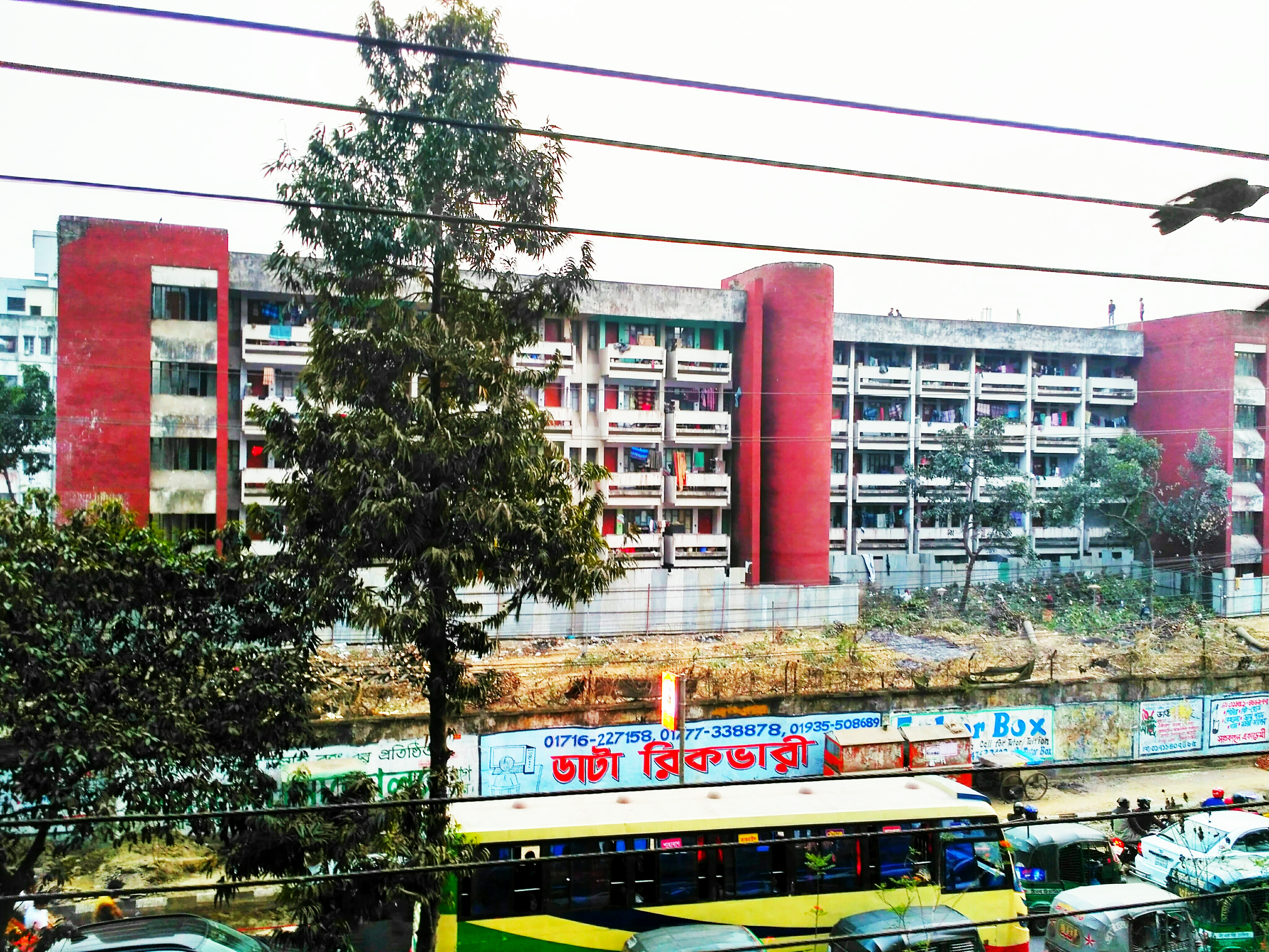 Bangabandhu Sheikh Mujibur Rahman Hall, Dhaka University. Picture shooted from first floor of Aziz Super market, Shahbagh. (09.02.2019)